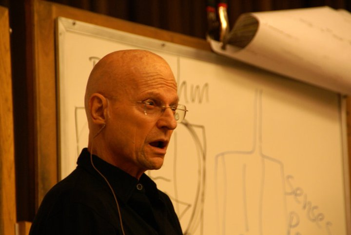 Arnold Mindell at Worldwork Denver 2011